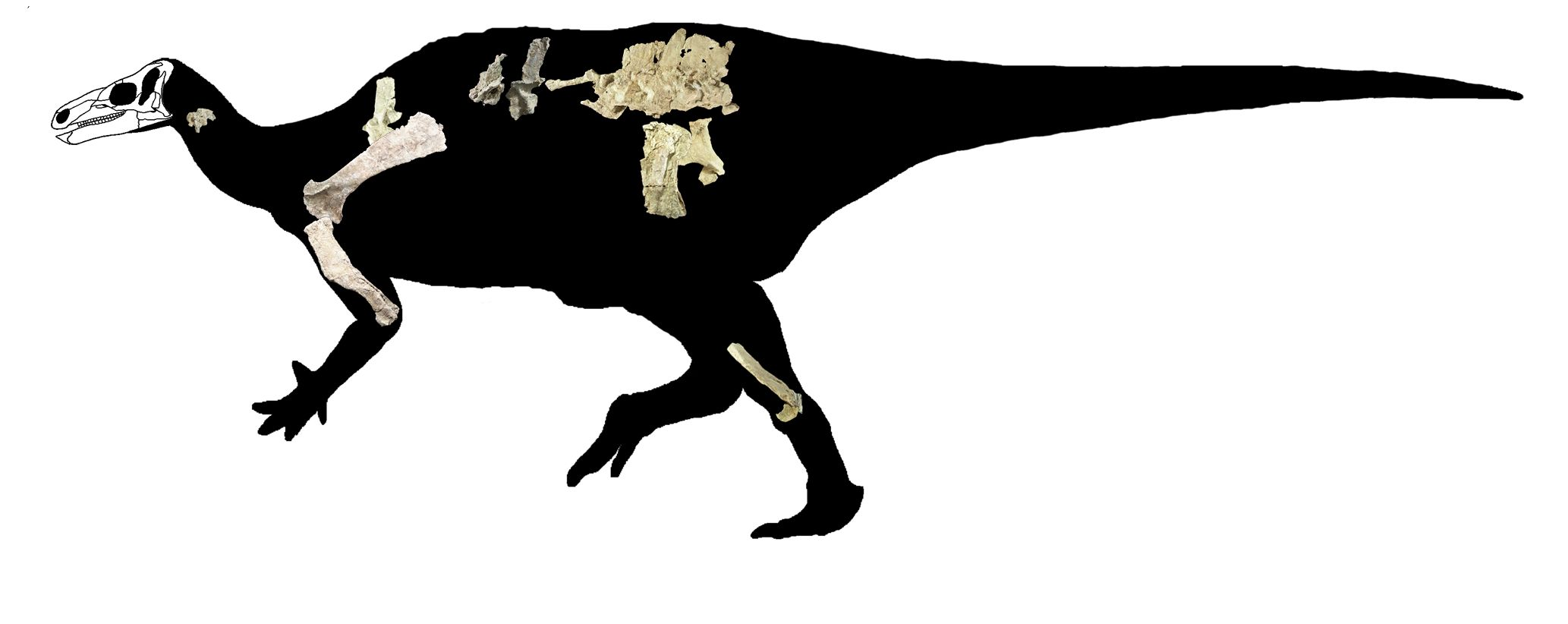 Skeletal reconstruction of Hippodraco scutodens, showing the known elements of UMNH VP 20208 (the right scapula, right humerus, right femur, and right tibia have been reversed for the purposes of reconstruction).